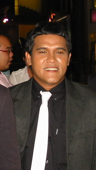 Sonthaya Chitmanee at Star Entertainment Awards 2007